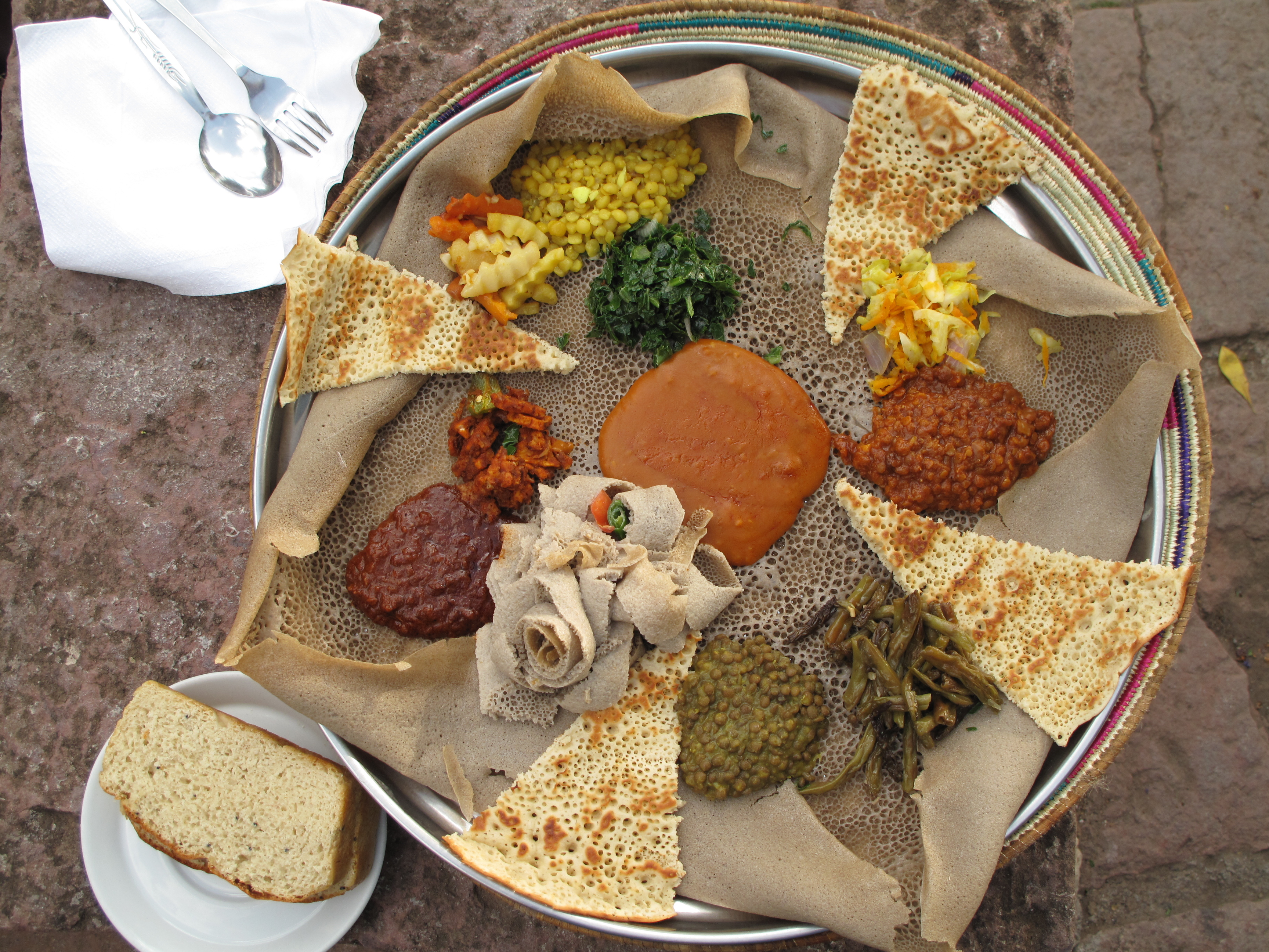 A typical injera served during the fasting time before Easter in Ethiopia. It contains no meat. Lalibela, Ethiopia.